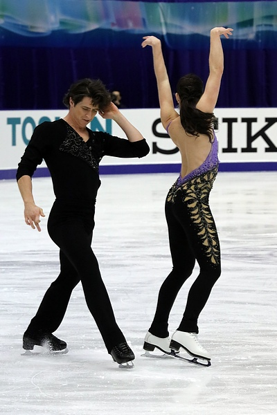 Tessa Virtue and Scott Moir at the 2016 NHK Trophy